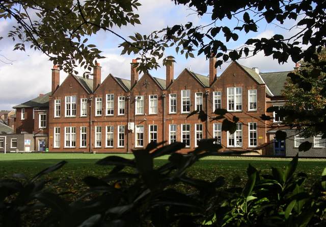 Markeaton Primary School. Markeaton Primary School, Kedleston Road, Derby